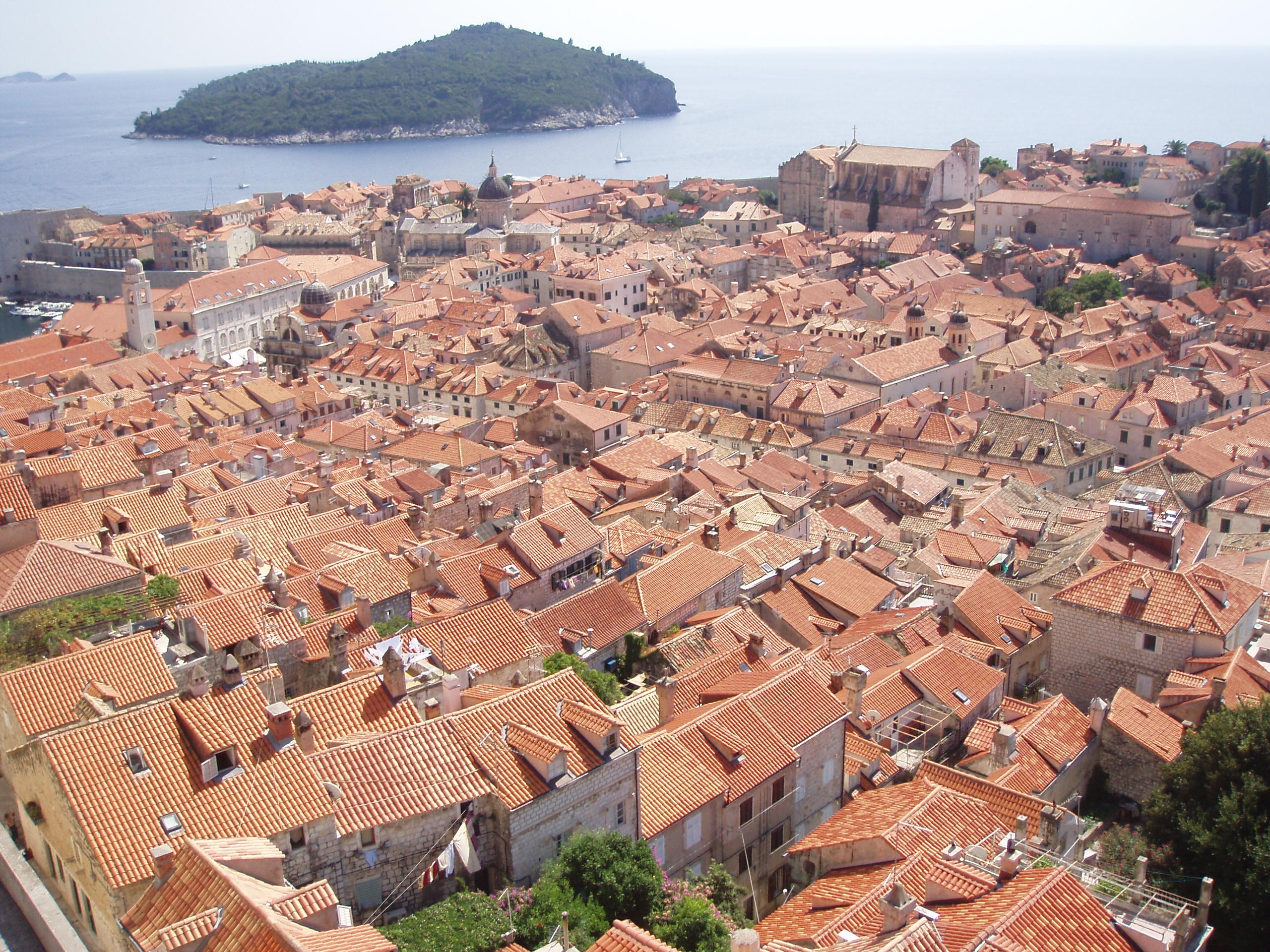 Panorama of Dubrovnik - picture took from the town walls